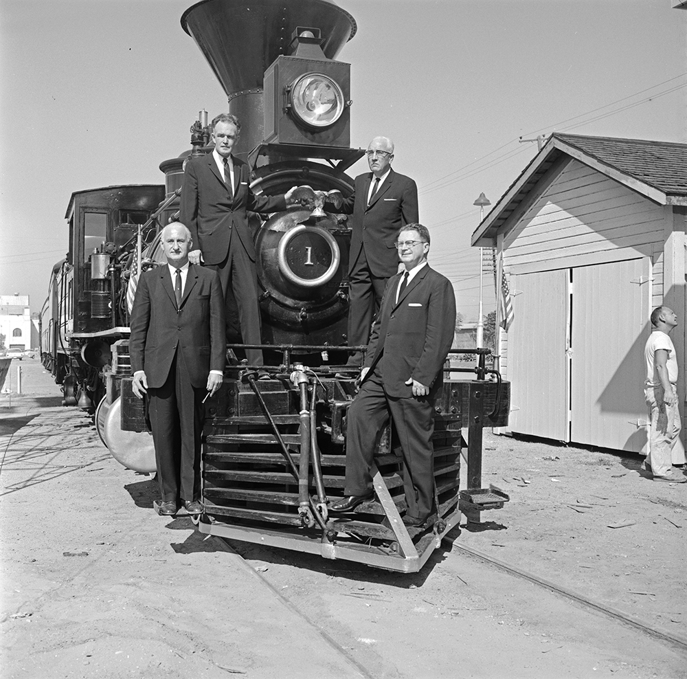 Metadata from SMU Central Library, shown on Flickr Creator: DeGolyer, Everett L. (Everett Lee), 1923-1977 Date: October 1964 Part of: Everett L. DeGolyer Jr. collection of United States railroad photographs Series: Negative Series: 00581 Place: Dallas, Texas Description: The Cyrus K. Holliday locomotive and train were vintage pieces that the Santa Fe Railway toured around their system for promotional purposes. The train made a number of appearances during State Fairs in the 1950s and early 1960s. Shown here is the Cyrus K. Holliday at the Age of Steam Exhibit in Fair Park in Dallas, Texas. The men in the photo are most likely Santa Fe Railway public relations and operating officials. Source: Bob LaPrelle, Museum of the American Railroad Notes: Negative sleeve: 82:232:581 A-E; [typed] Atchison, Topeka & Santa Fe, #1 [Everett DeGolyer, Jr.'s Notes] Railroad officials posed on and by pilot at Fair Park. Physical Description: 1 negative: film, black and white; 6.3 x 6.7 cm Railway Identifier: Cyrus K. Holliday Railway Line: Atchison, Topeka, and Santa Fe Railway Company File: ag1982_0232_atsf_00001_neg00581c_sm_opt.jpg Rights: Please cite DeGolyer Library, Southern Methodist University when using this file. A high-quality version of this file may be obtained for a fee by contacting . For more information, see: View the Railroads: Photographs, Manuscripts, and Imprints Collection